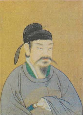 Emperor Xianzong of Tang dynasty Bân-lâm-gú: Tông-hiàn-tsong. 唐憲宗